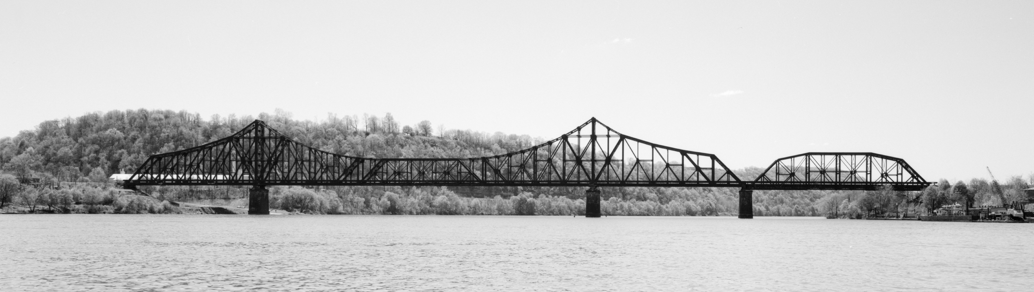 Beaver Bridge (Ohio River) Pittsburgh & Lake Erie Railroad, Ohio River Bridge, Spanning Ohio River, West of Beaver River, Beaver, Beaver, PA: Overview of east elevation, looking SW. Building/structure dates: 1908 initial construction. “The bridge is significant for its relatively long and heavy cantilever truss, planned shortly before the Quebec cantilever bridge collapse of 1907. Rather than select a different design, the railroad proceeded, implementing design checks and strict quality control procedures. Despite a conservative overall design, the bridge includes a number of innovative structural details. The substructure is also significant for its early use of concrete pier caissons.” Call Number: HAER PA,4-BEAV,1- Repository: Library of Congress, Prints and Photographss Division, Washington, D.C. 20540 USA 5 × 7 in. Survey number HAER PA-510